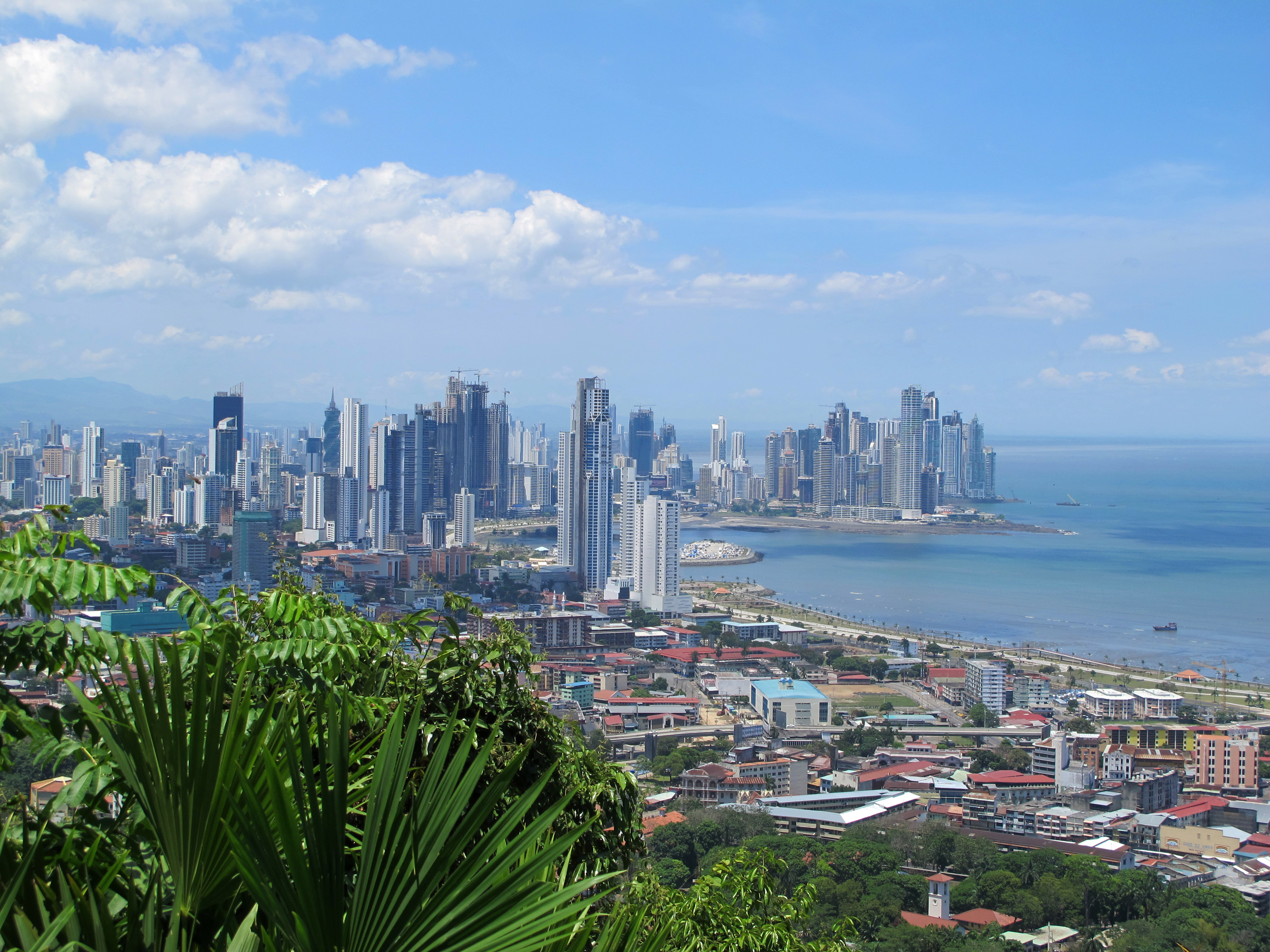 Panama City seen from Cerro Ancón